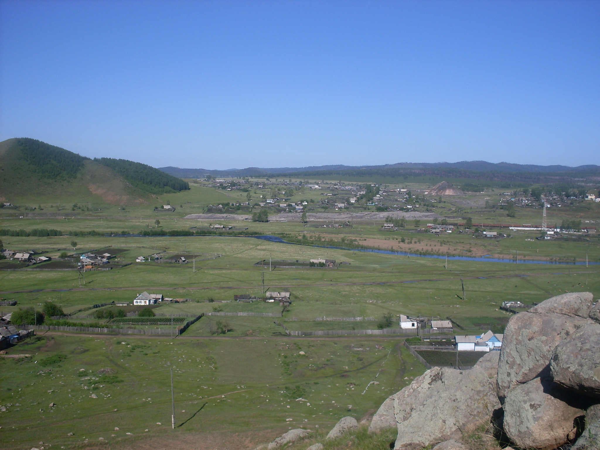 View on Bukachacha the south-east side.